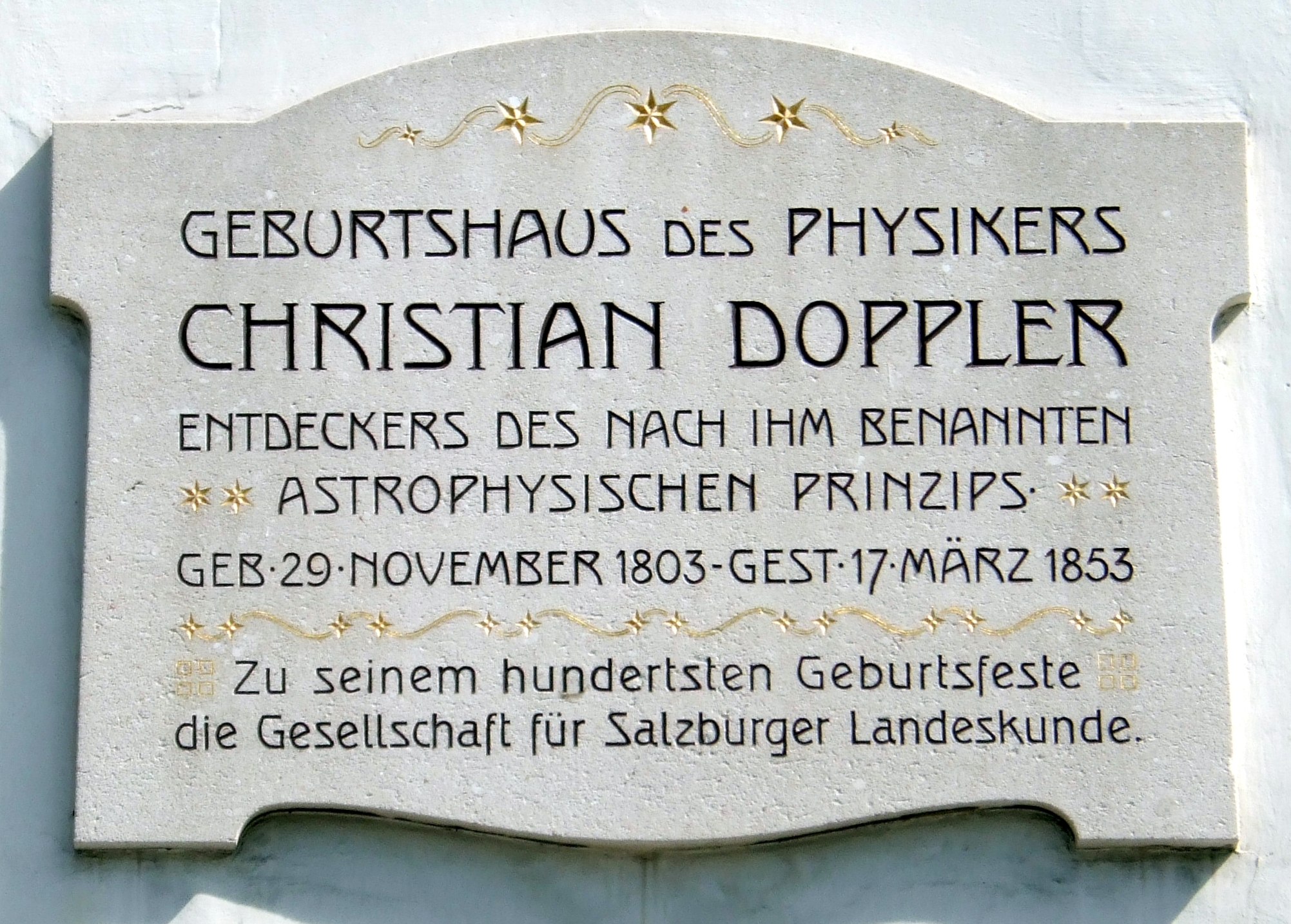 Memorial plaque on Christian Doppler's (1803–1853) birthplace (Makartplatz 1, Salzburg)